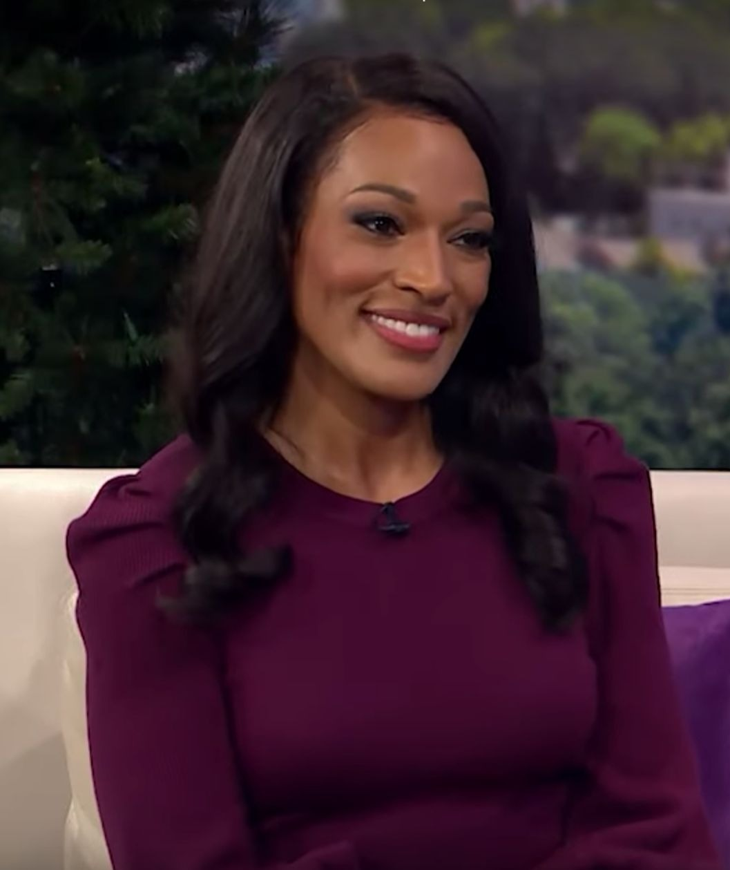 Actress Kron Moore Talks “The Oval” On BET & More